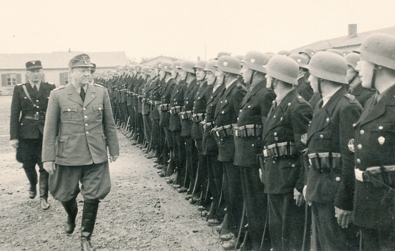 RA/PA-0748/Fc/0001 (1129)